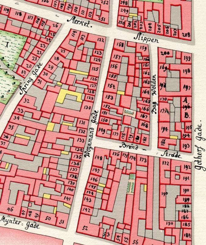 Wognmandgade (now Vognmagergade) on a detail from Christian Gedde's district map of Copenhagen.